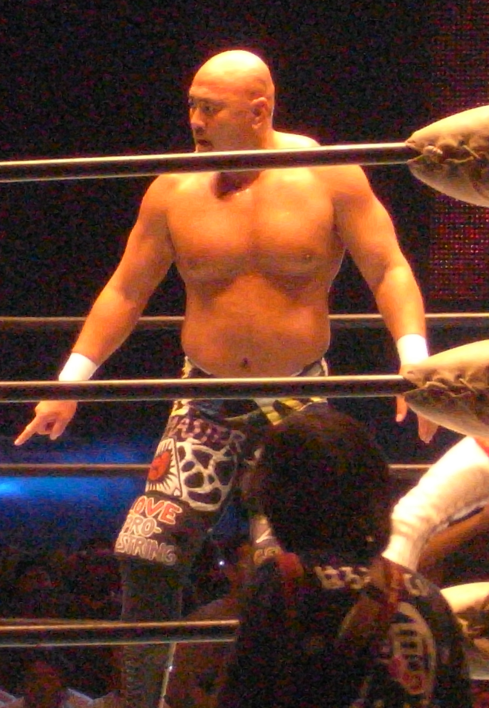 Keiji Mutoh (aka Great Muta, All Japan Prowrestling) 2008